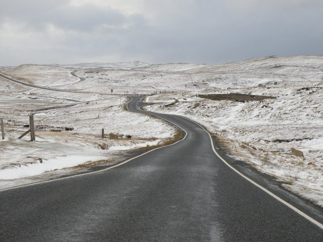 A970 Junction A view towards the strange junction of the A970. By right the road in view should have a different number but it remains the A970, so you turn off the A970 onto the A970.